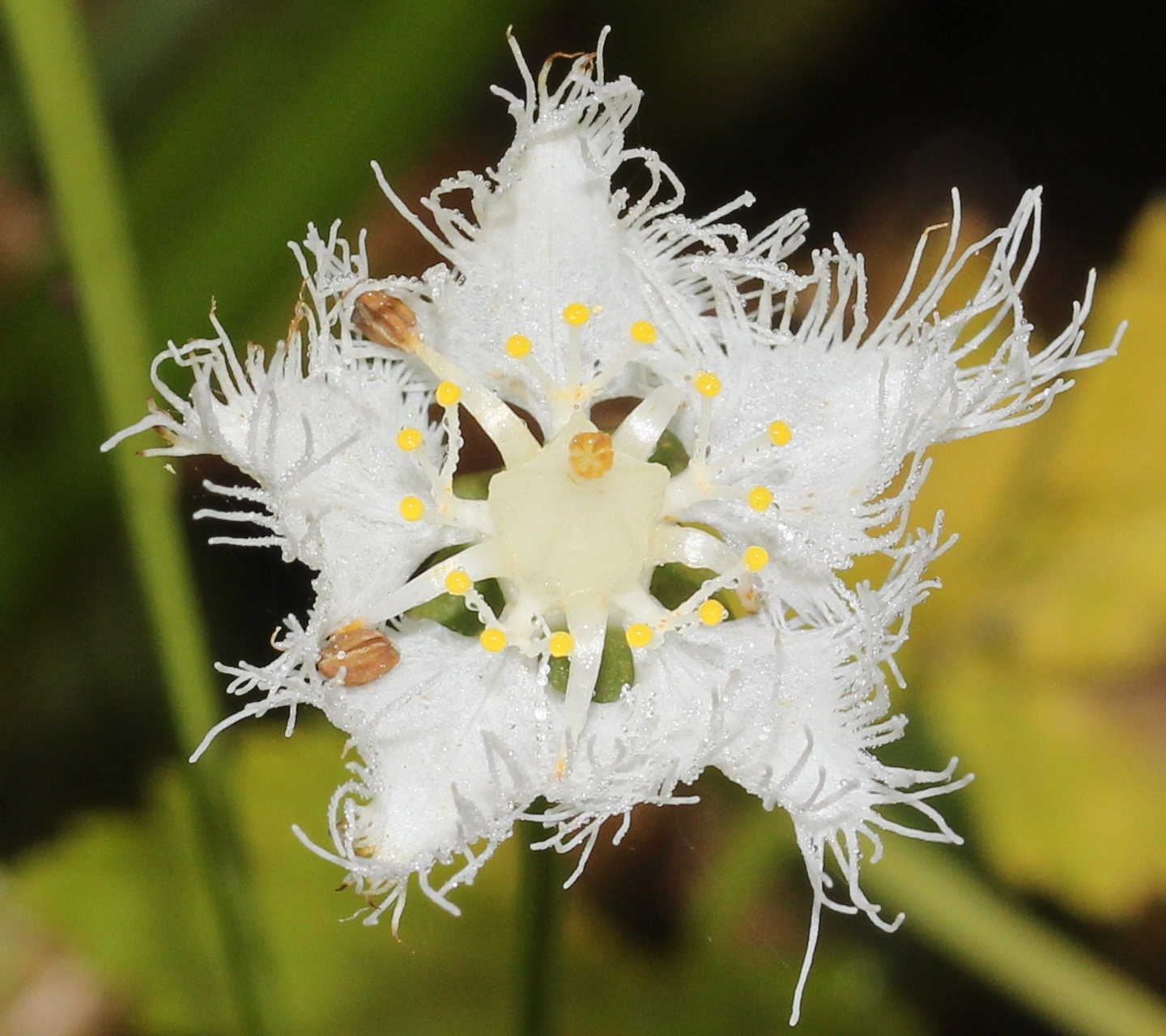 Parnassia foliosa var. nummularia with nectar, in Mount Mominuka, Hida, Gifu prefecture, Japan.